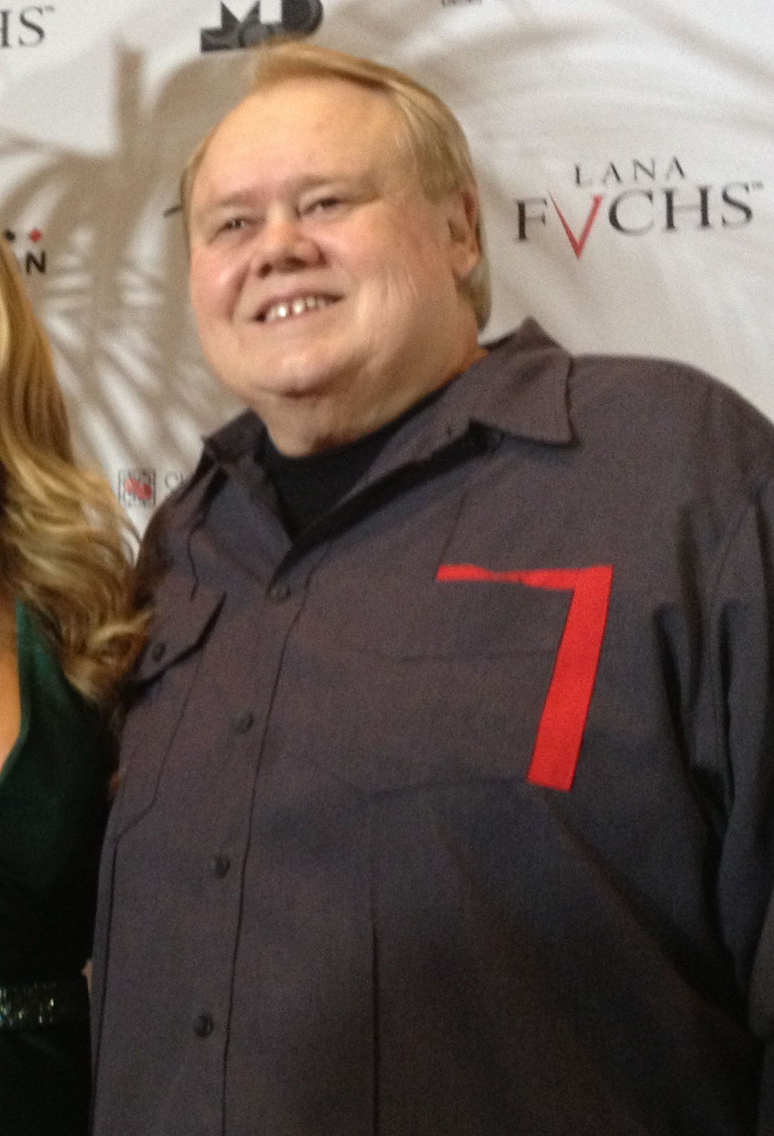 Sin City Rules Premiere Party - red carpet 12/09/12